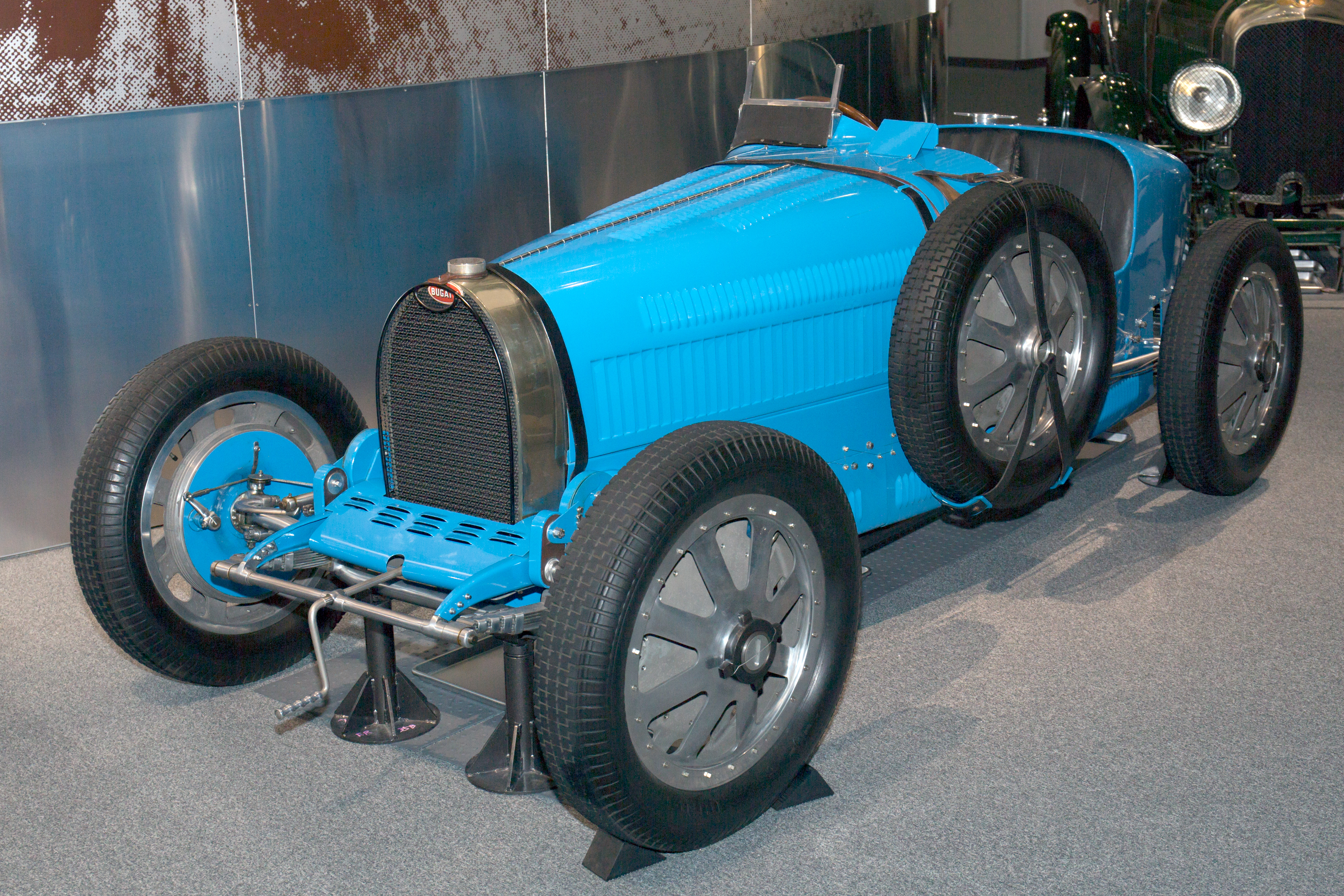 1926 Bugatti Type 35B